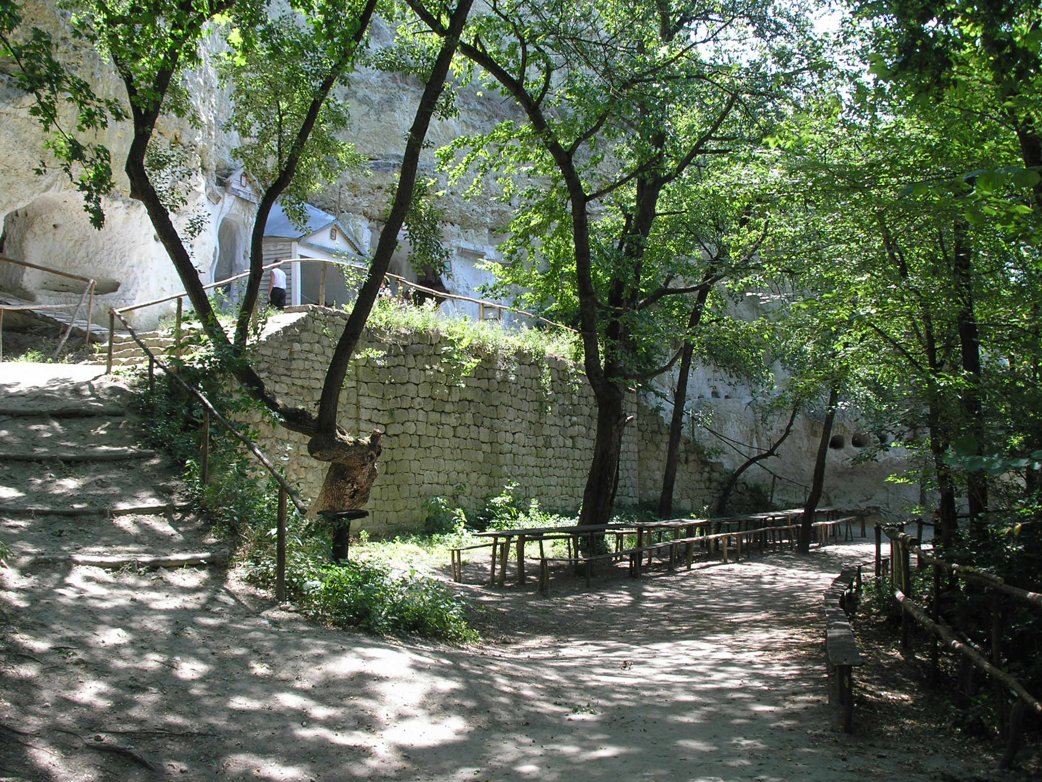 The historical town of Bakota in western Ukraine.